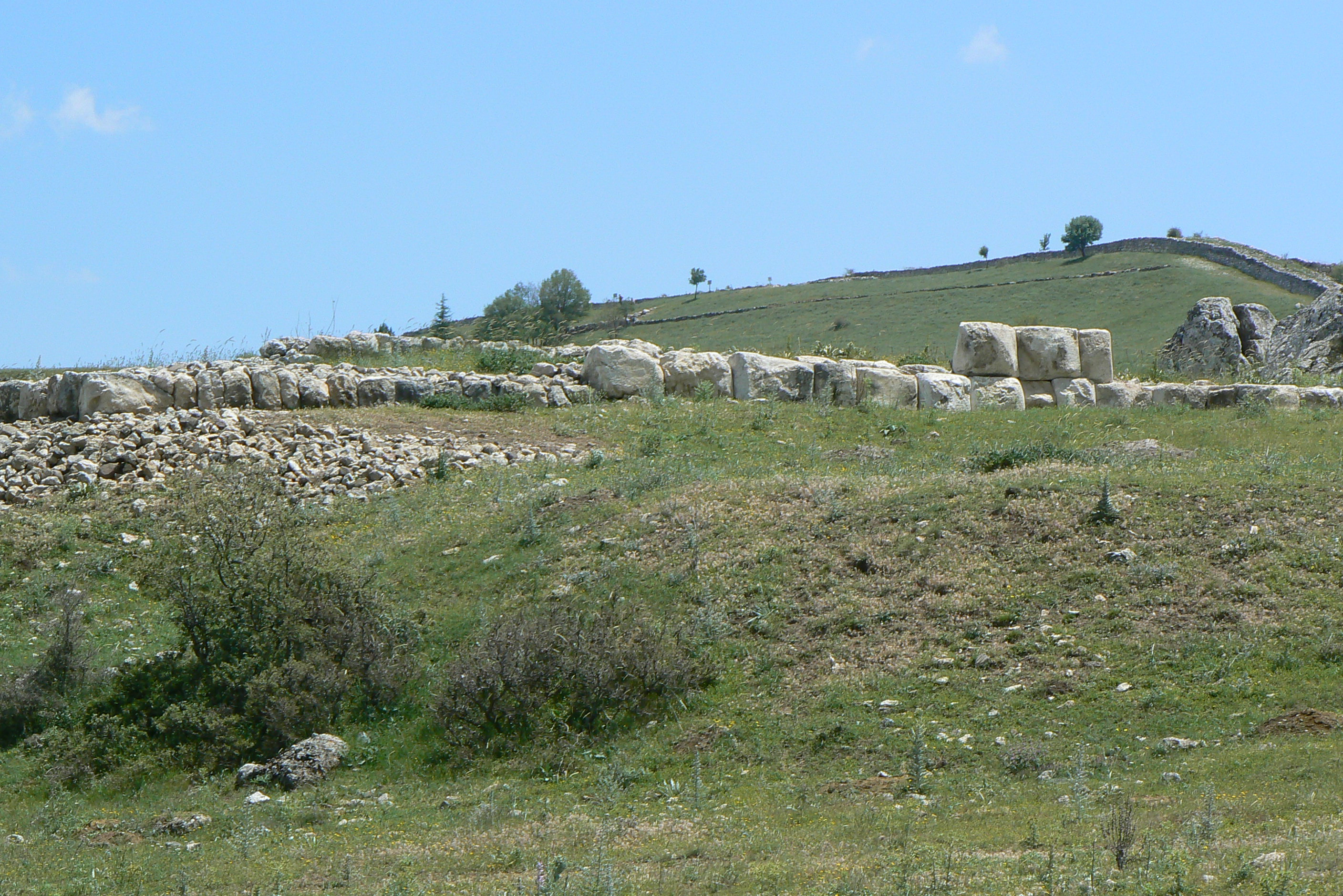 Ruins of a temple, Hattusa, Turkey